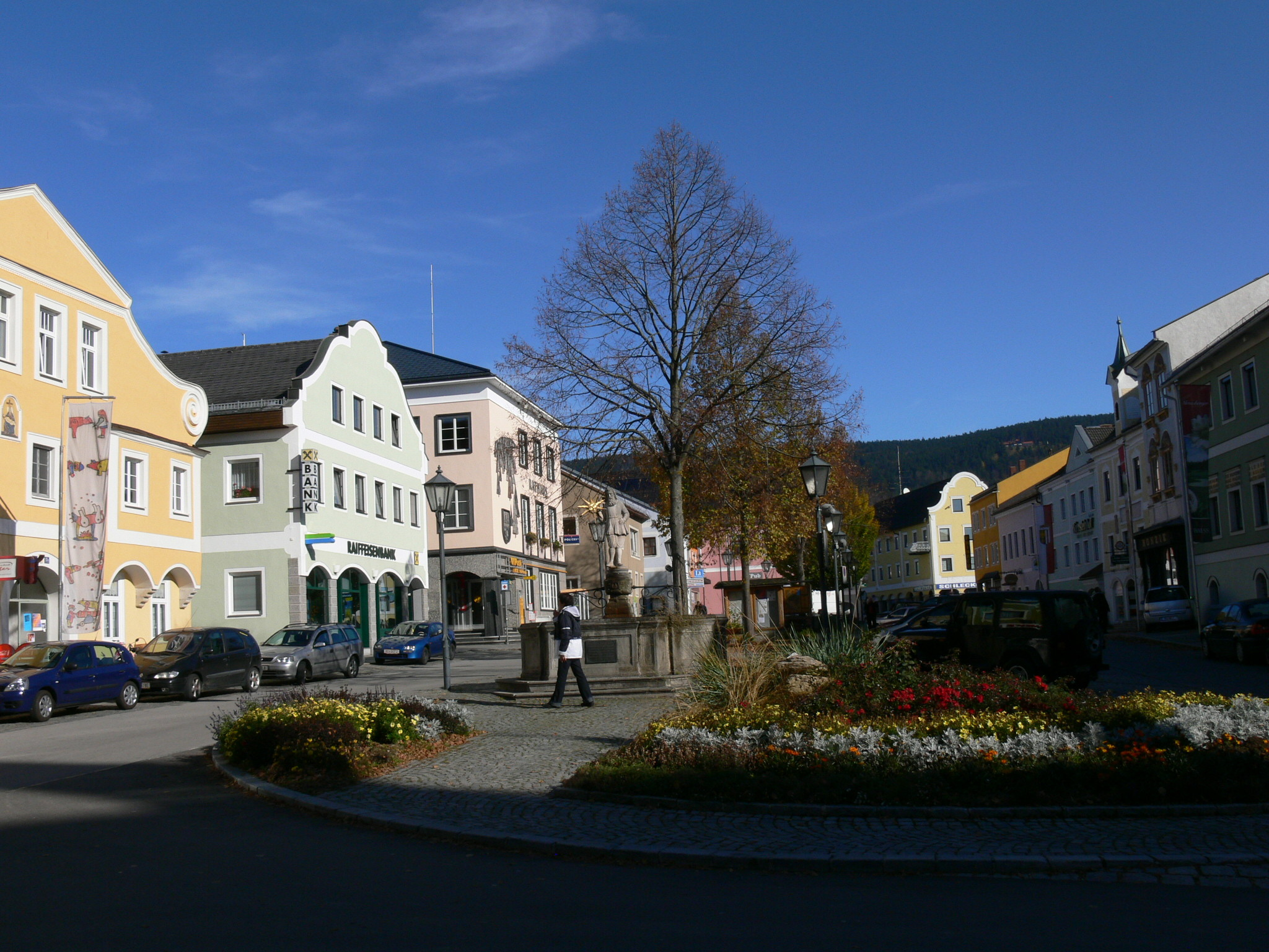 Aigen ( Upper Austria ): Town square.